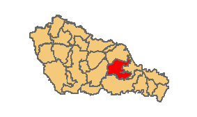 Location of municipality inside Međimurje County